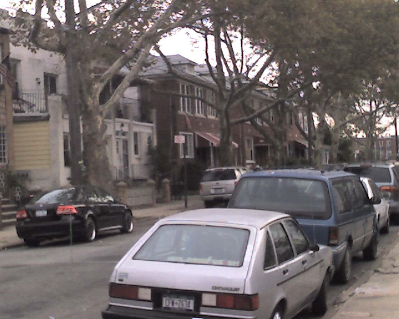 Bath Avenue. Bay 34th Street between Bath Avenue and Cropsey Avenue, Bath Beach, Brooklyn, NY, USA